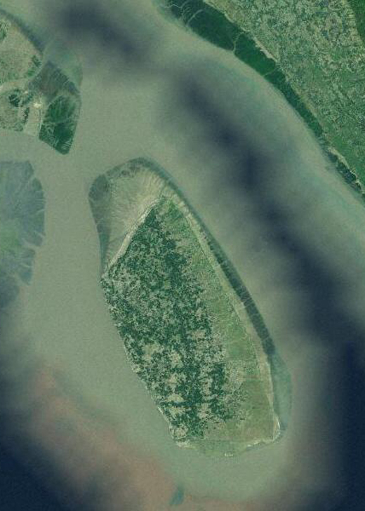 Nasa satellite image of Sandwip Uploaded by Rahat